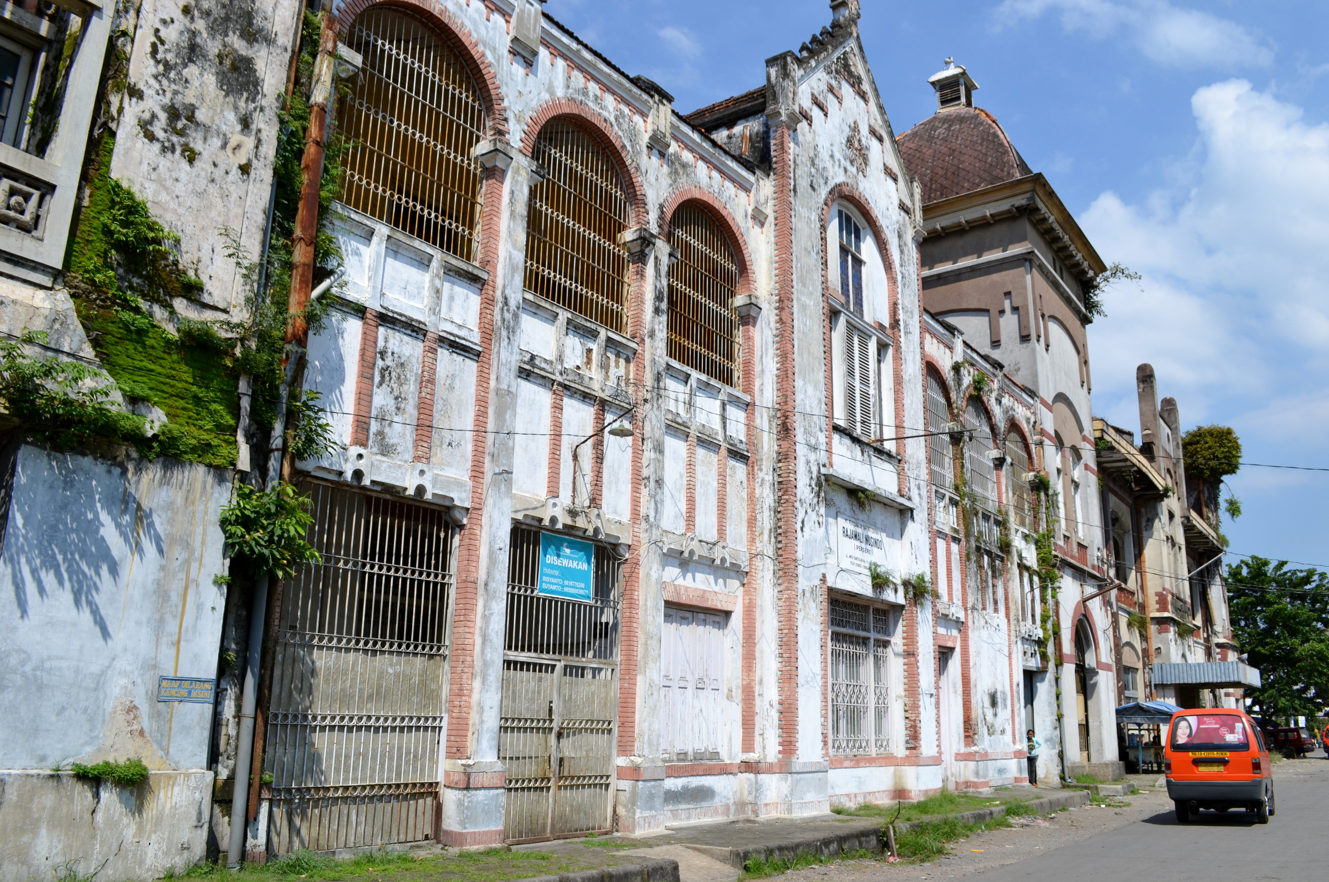 Kota Lama, Semarang, Central Java, Indonesia. The history of Kota Lama began when there was a treaty signed between Mataram Kingdom and VOC (Vereenigde Oostindische Compagnie) on January 15th, 1678.